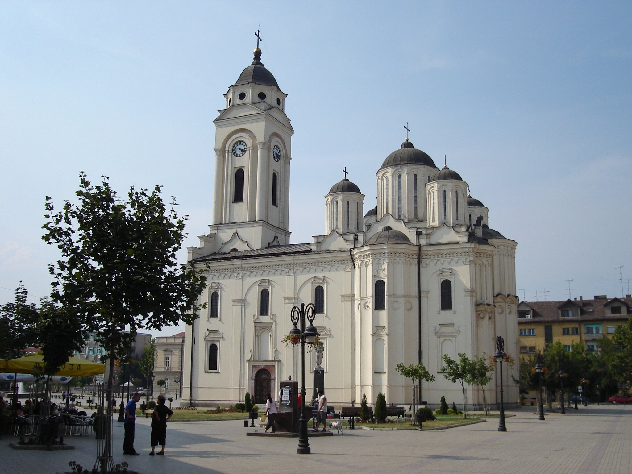 Smederevo in Serbia, orthodox city church